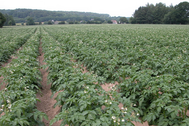 Crop of Potatoes near Whitney-on-Wye. In the background the church and Boat Inn at Whitney-on-Wye can be seen through the trees.